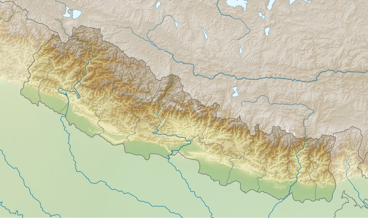 Location map of Nepal. Equirectangular projection. Stretched by 113.0%. Geographic limits of the map: * N: 27.633 N * S: 26.0° N * W: 79.5° E * E: 84.109° E Made with Natural Earth. Free vector and raster map data @ .